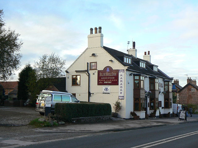 The Blue Bell Inn, Leeming Lane, Kirby Hill (Kirby-on-the-Moor), near Boroughbridge, North Yorkshire, seen from the southeast. Leeming Lane is part of the historic Great North Road.